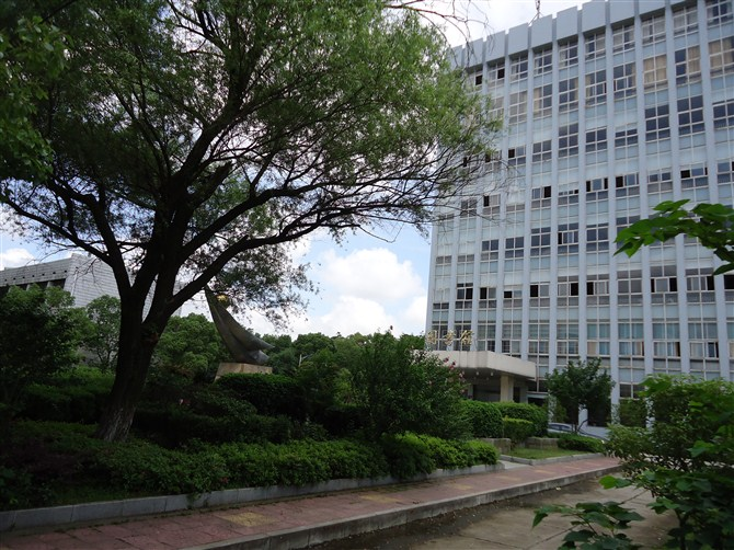 library picture of nanchang university institute of technology